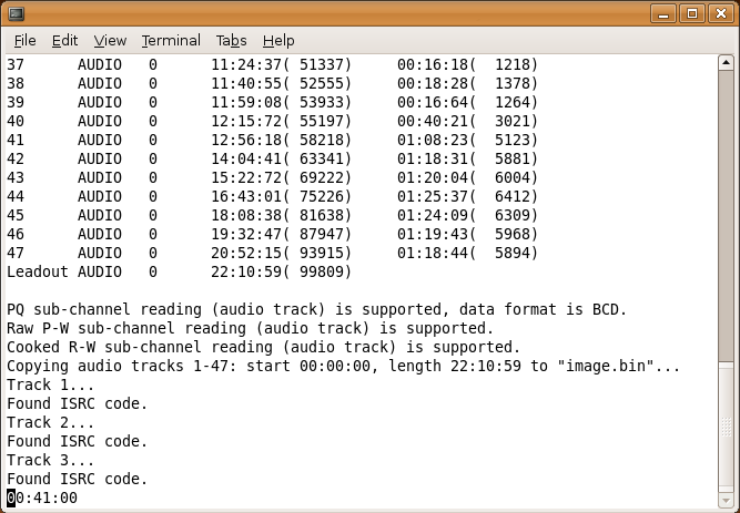 Screenshot of cdrdao